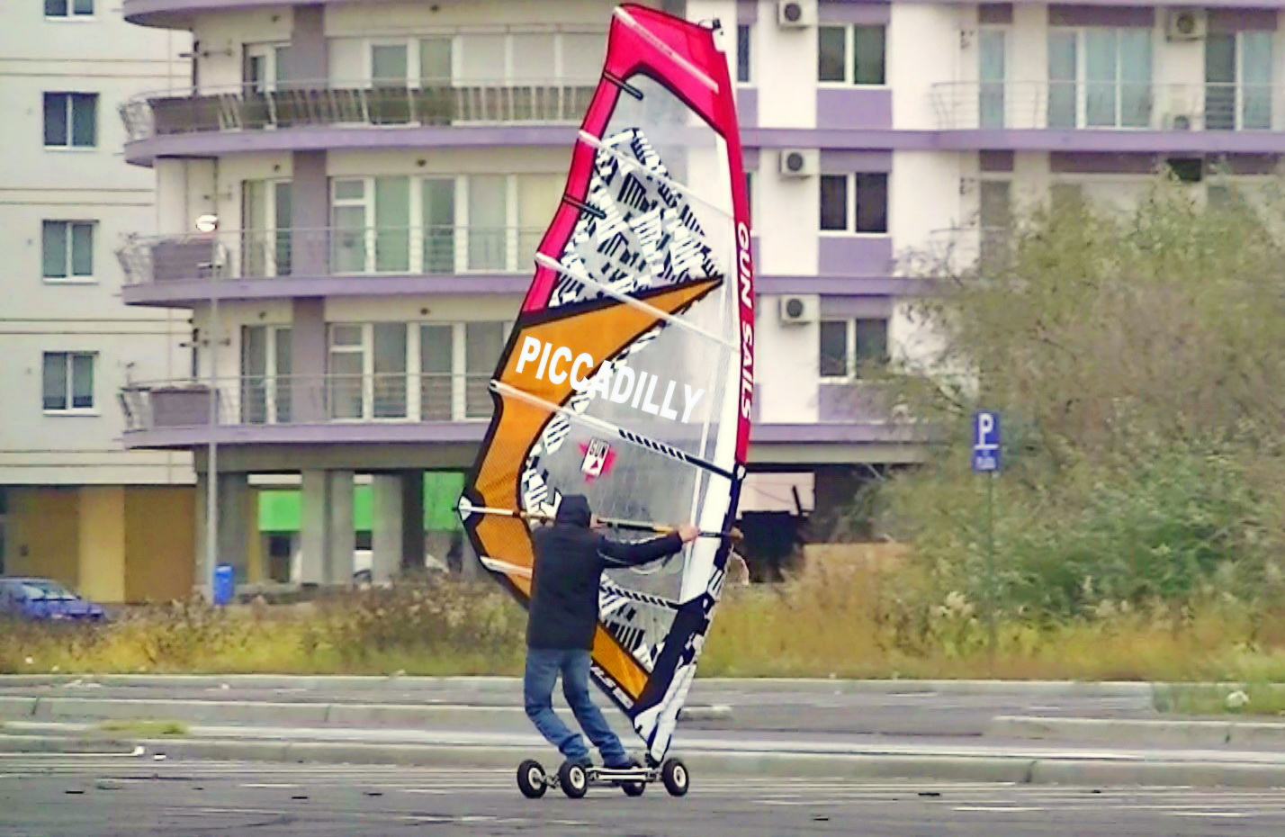 PARKING WINDSURFING